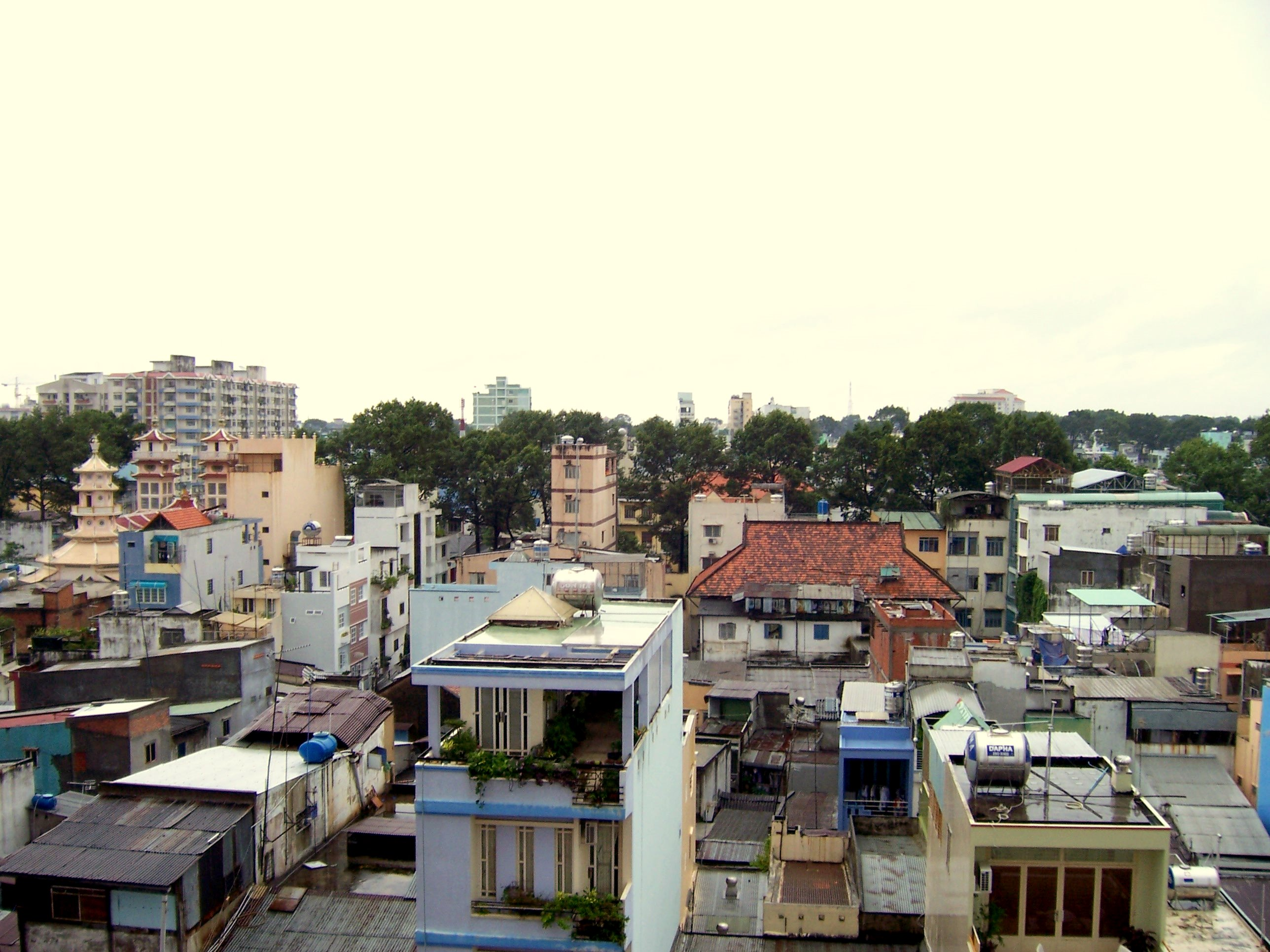 Ho Chi Minh City, District 5